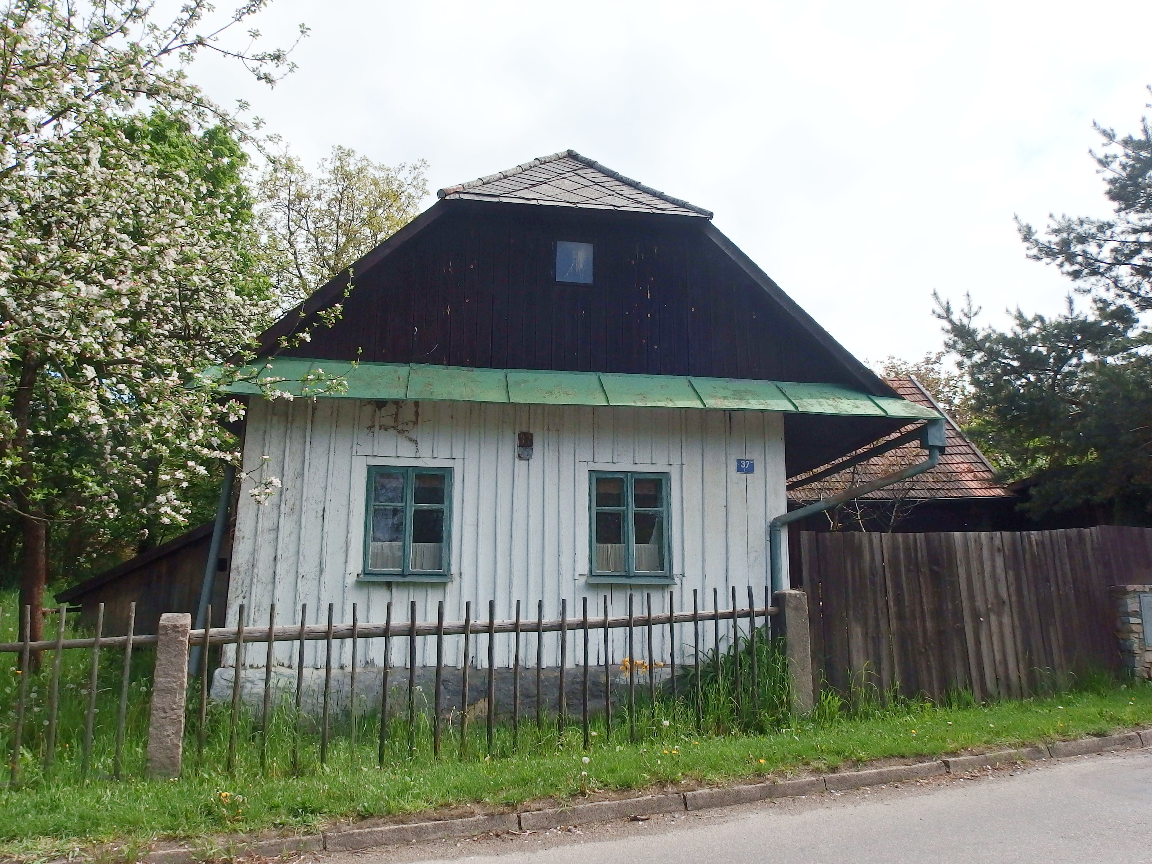 Proseč, Chrudim District, Czech Republic, part Podměstí.